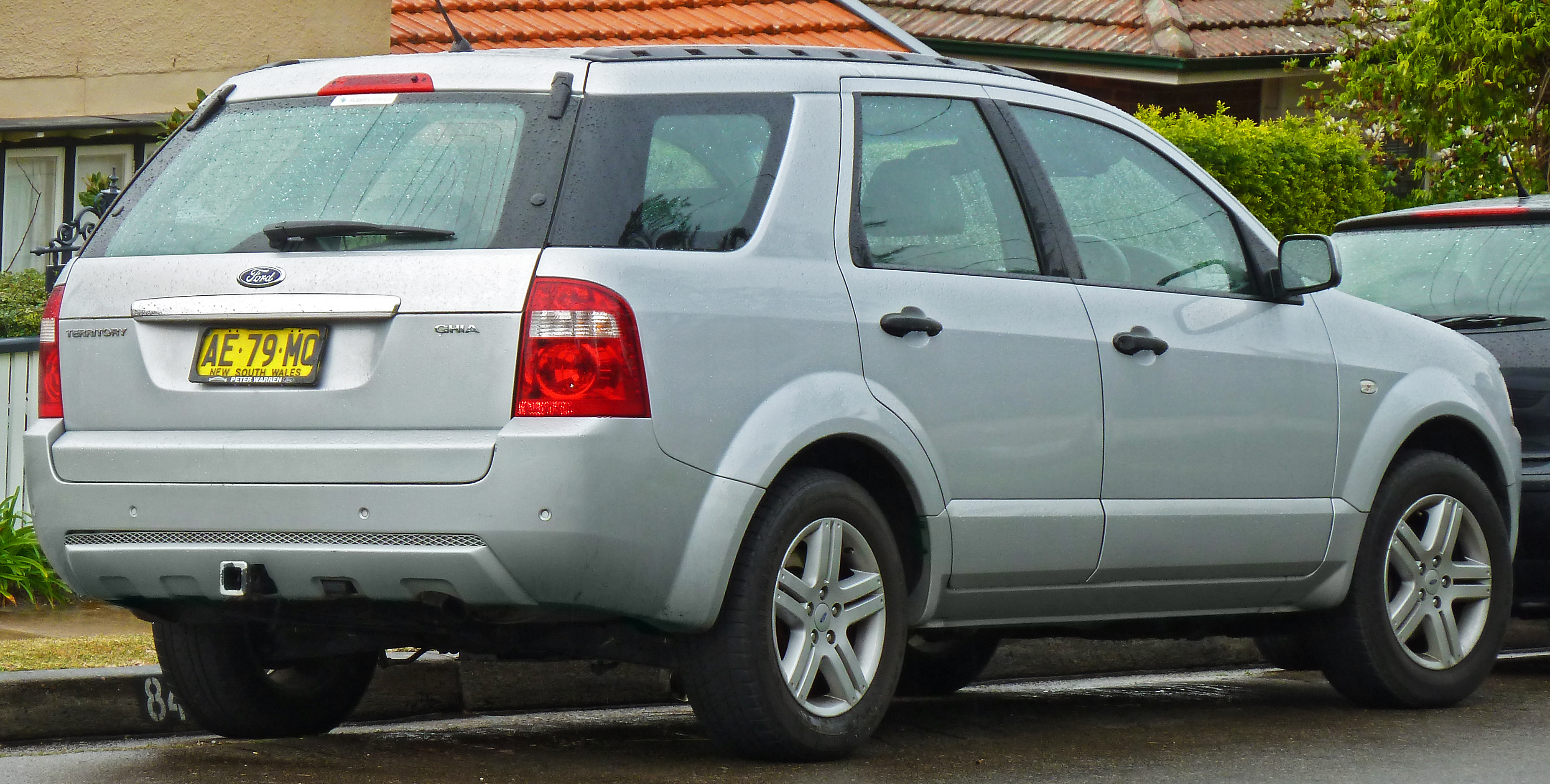 2004–2005 Ford Territory (SX) Ghia wagon. Photographed in Chatswood, New South Wales, Australia.